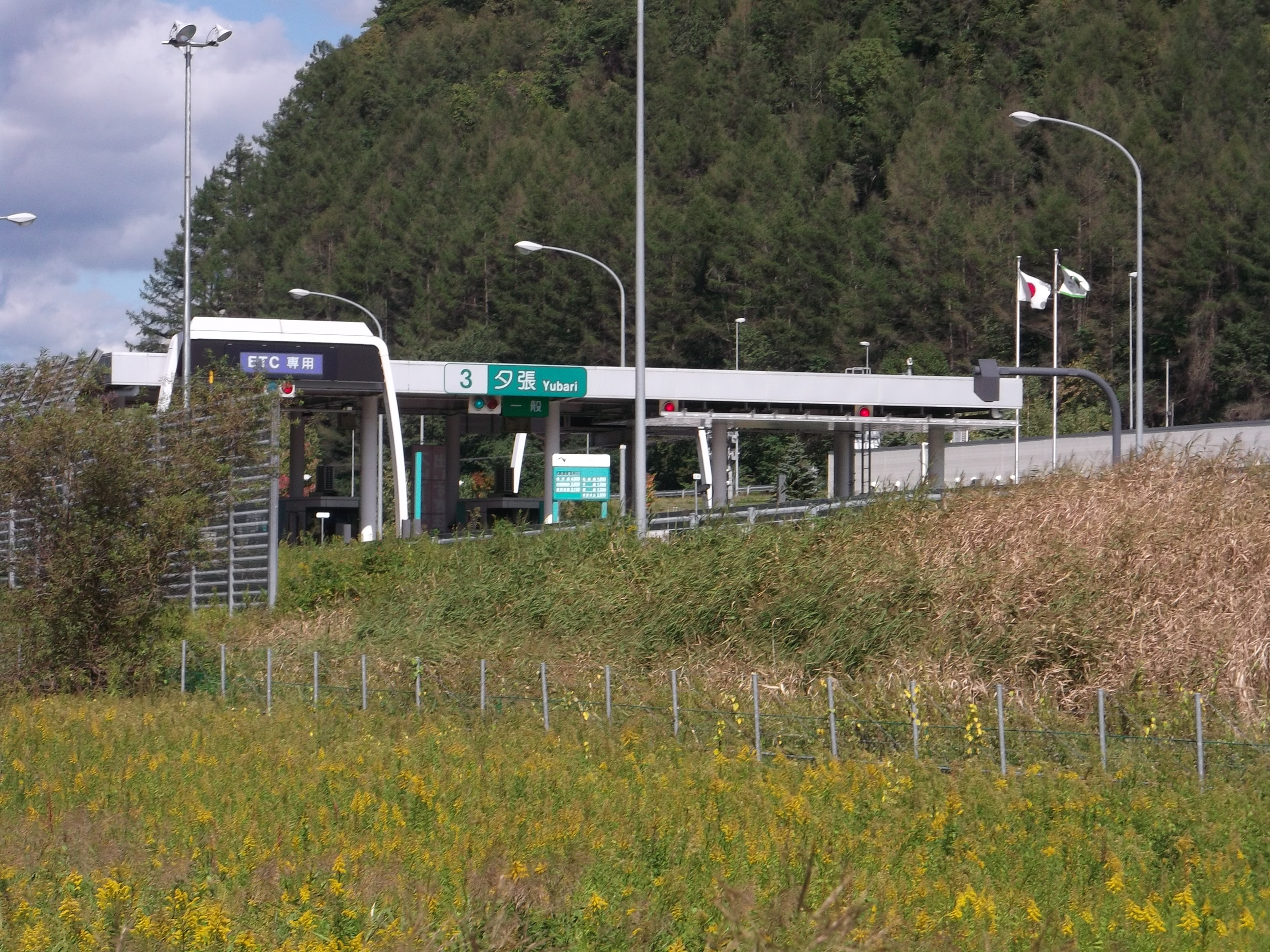 Yubari Interchange on the Doto Expressway